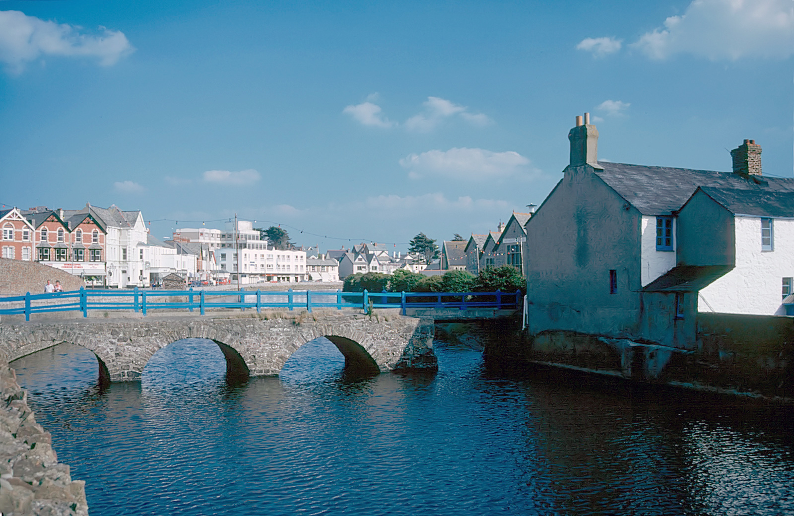 River Neet in the village of Bude, Cornwall/UK